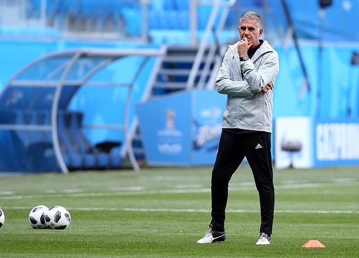 Iran national team training before 2018 FIFA World Cup match against Morocco